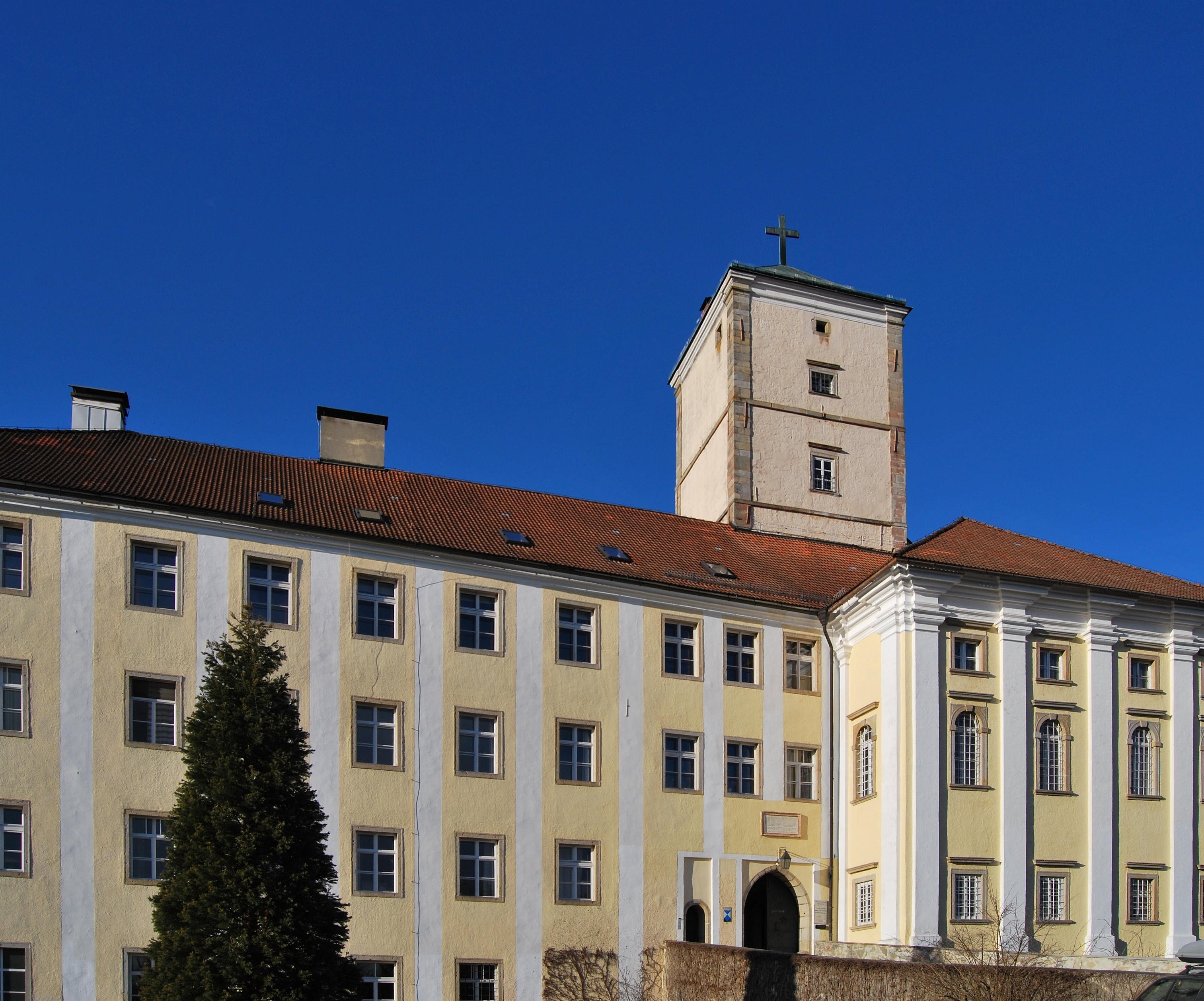 Castle Riedegg near Gallneukirchen in Upper Austria.